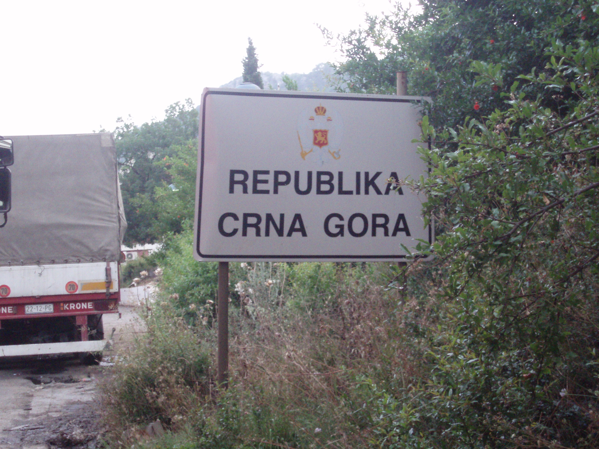 sign at the Montenegrin-Albanian border at Hani i Hotit (taken a few weeks after the referendum)